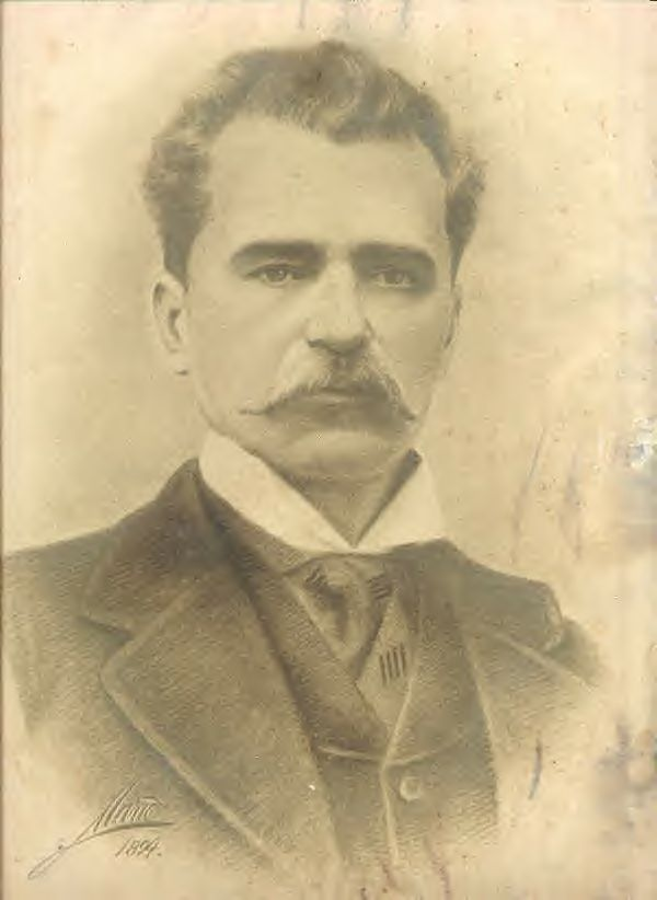 Charcoal drawing of Puerto Rican historian Salvador Brau